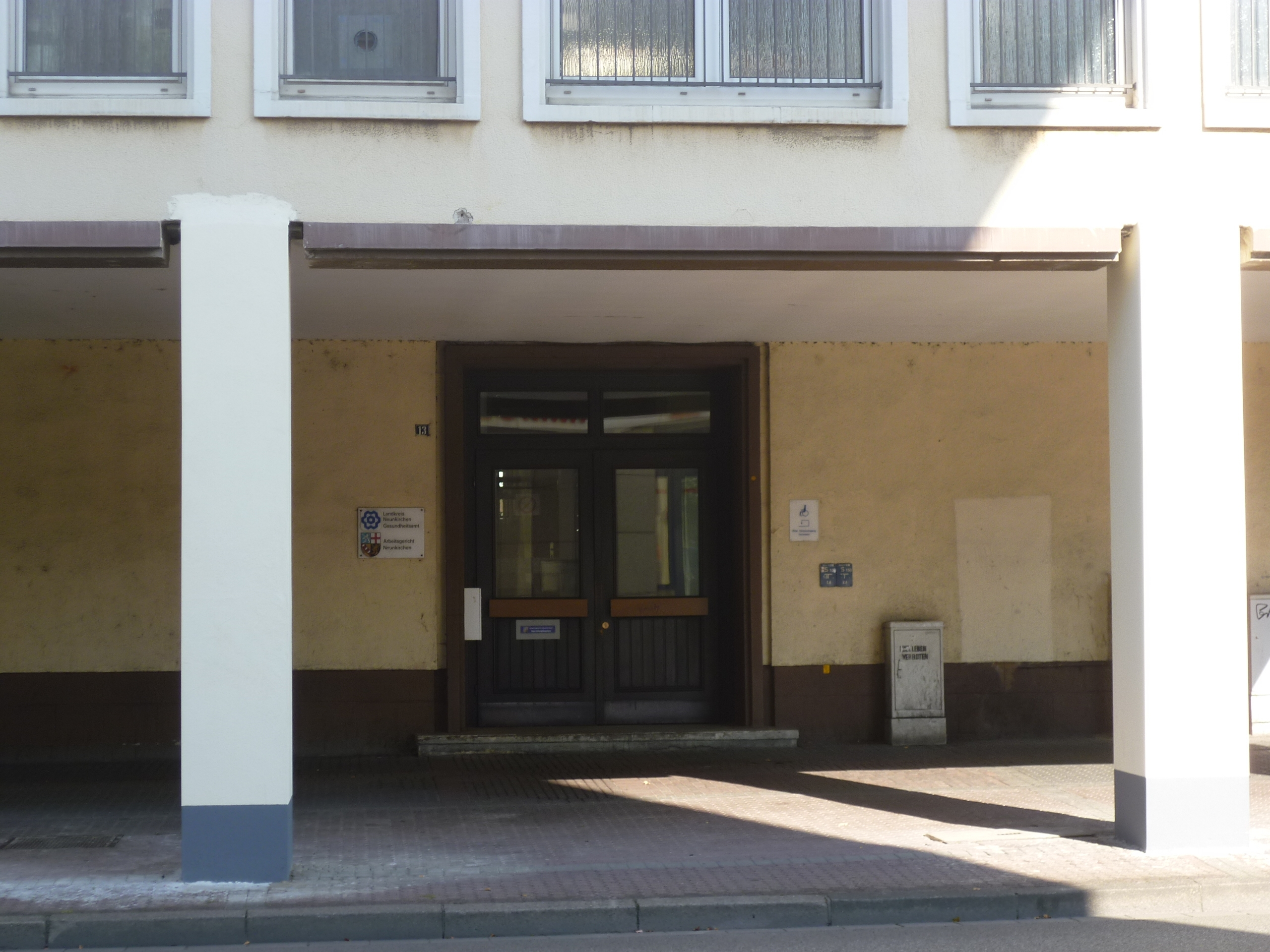 Entrance to the Arbeitsgericht Neunkirchen